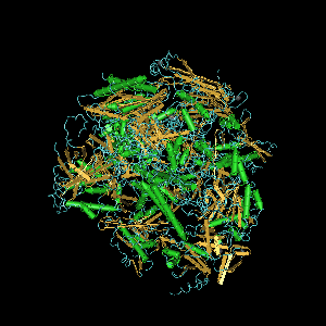 Macromolecular assemblies as large as RNA polymerase II (Pol II) can be phased by a few intrinsically bound Zn atoms, by using MAD experiments. A phasing effectiveness of 570 aa/Zn was attained for RNA Pol II.